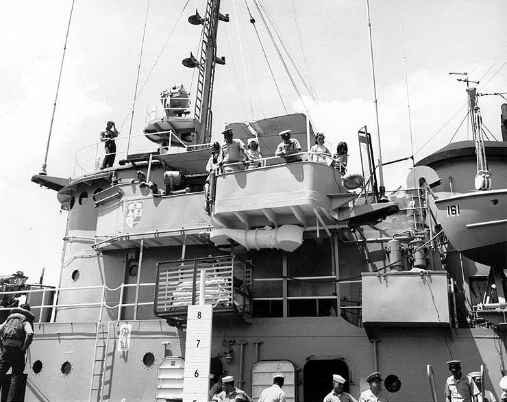 View of USS Salinan (ATF-161)'s port bridge while underway during a dependent's cruise, 18 May 1968. US Navy photo # 98807 from the collections of the US Naval Historical Center.